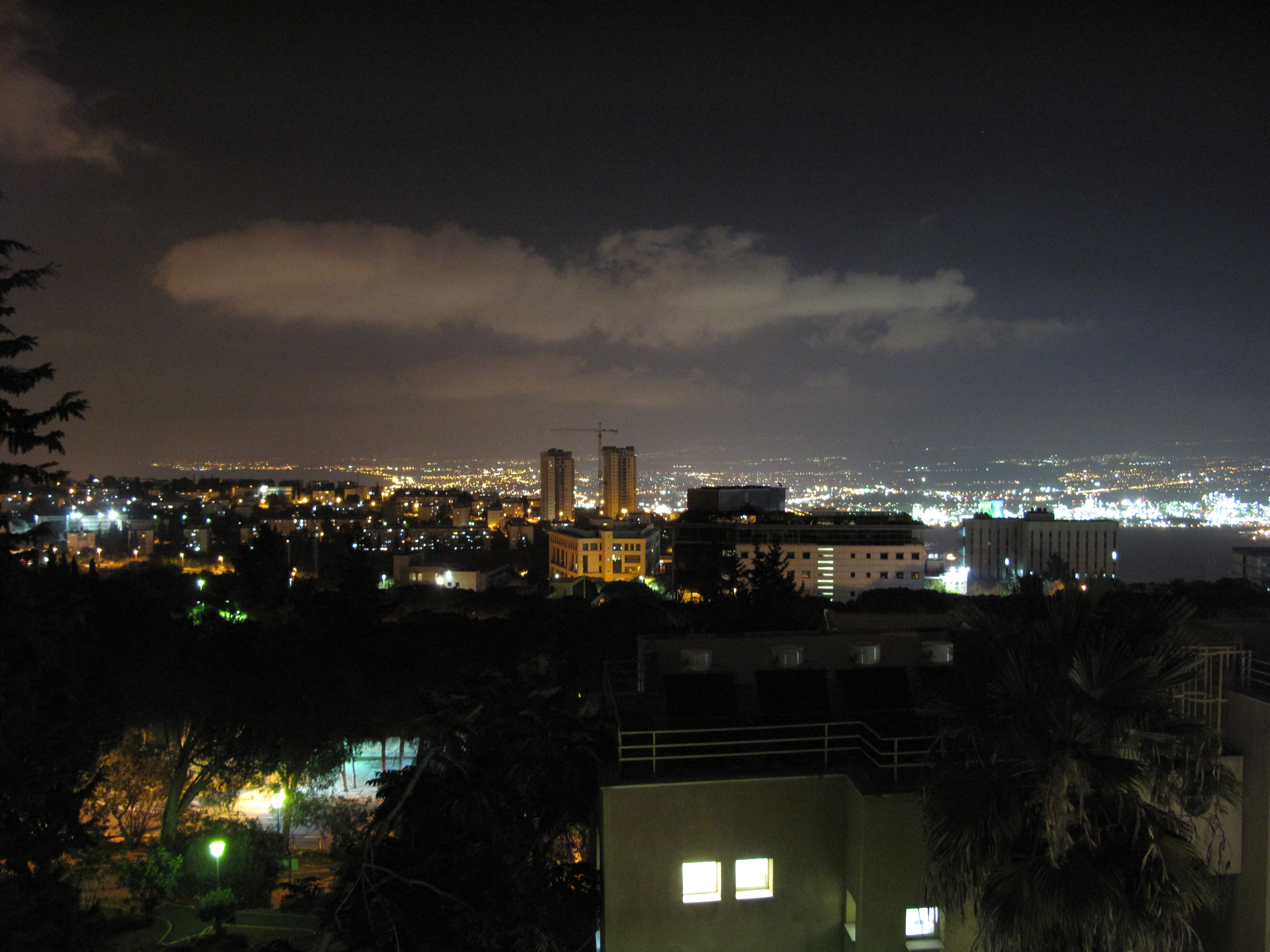 Haifa as seen by night from the dorms in Technion Campus, Israel.